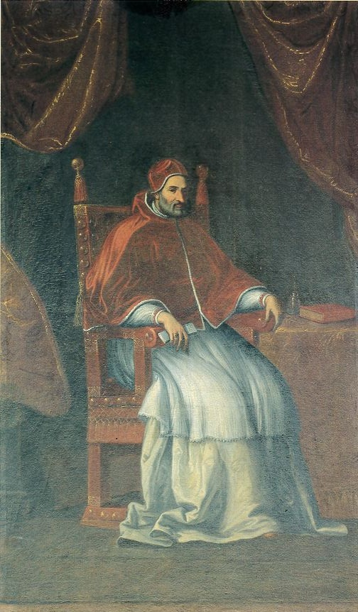 Portrait Pope Pius IV